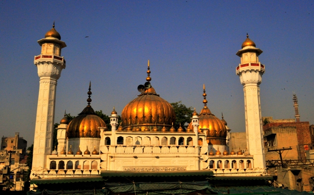 Sunehri Masjid (The Golden Mosque) This is a photo of a monument in Pakistan identified as the PB-P-97